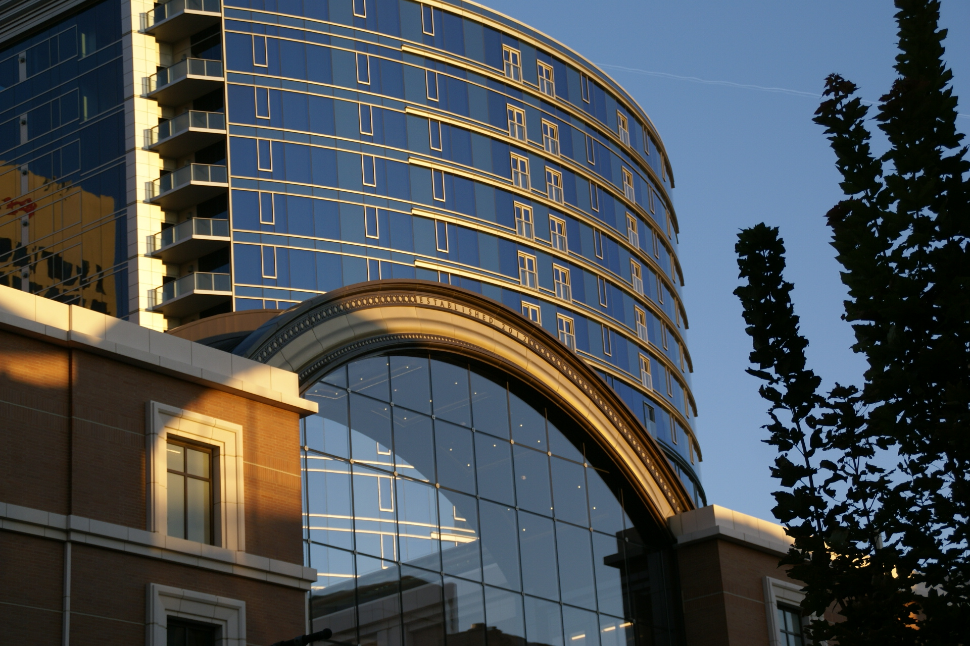 City Creek Center in Salt Lake City, Utah, USA